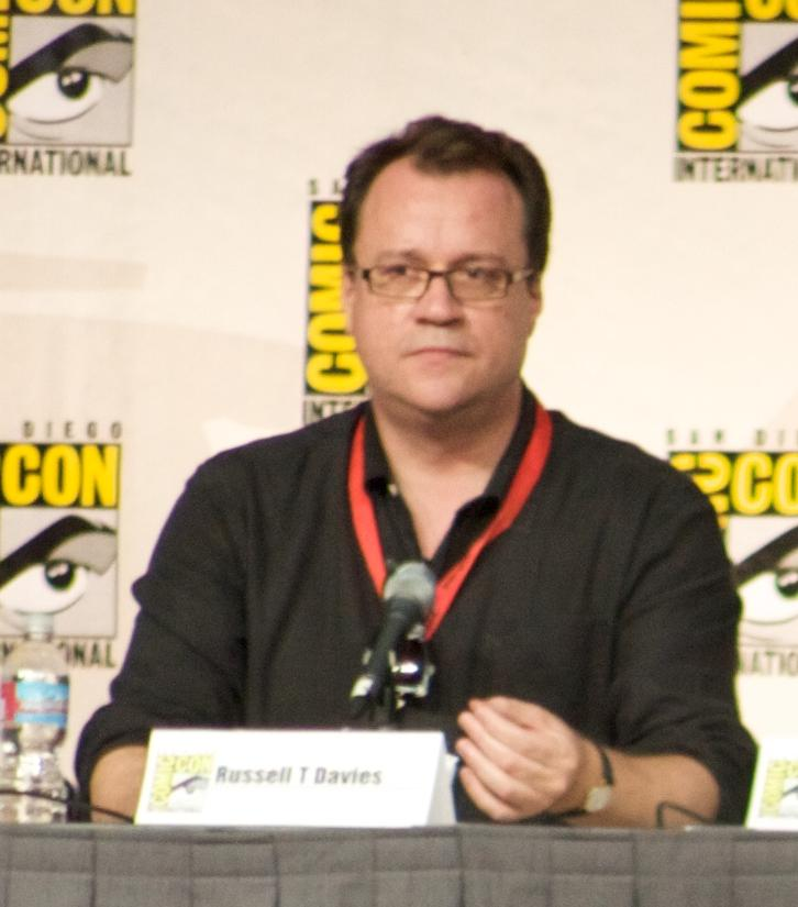 Screenwriter Russell T Davies – 2009 Comic-Con International – "Doctor Who" panel.